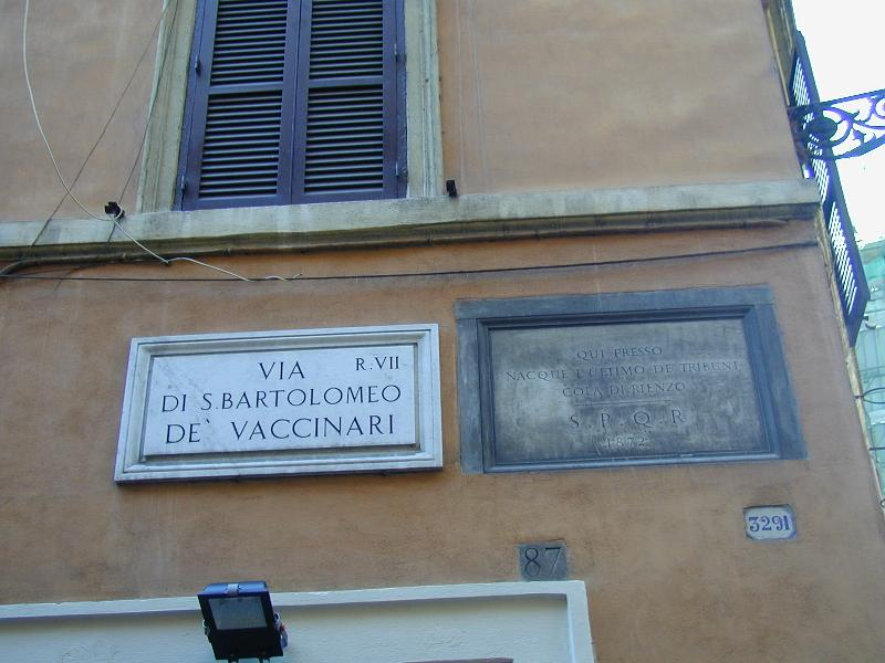 Rome, Via San Bartolomeo of vaccinari: tombstone birthplace of Rienzi.